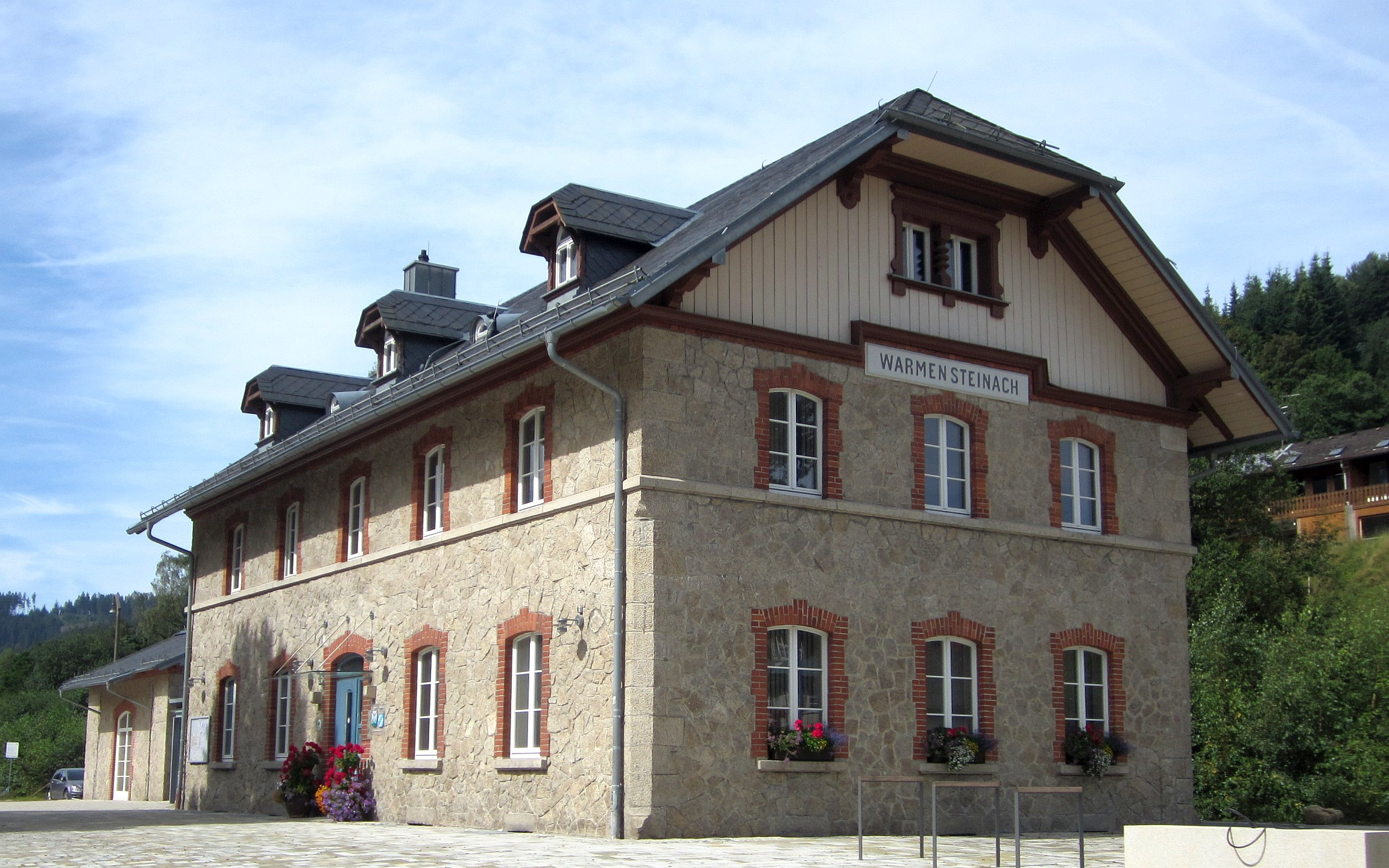 Warmensteinach railway station